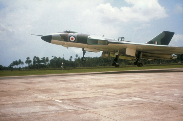 A RAF Avro Vulcan bomber aircraft lands at the RAAF base at Butterworth, Malaysia. The pilot deploys the air brakes to arrest the landing. The potential of these long range aircraft were a considerable deterrence during the Confrontation period from 1963 to 1966.